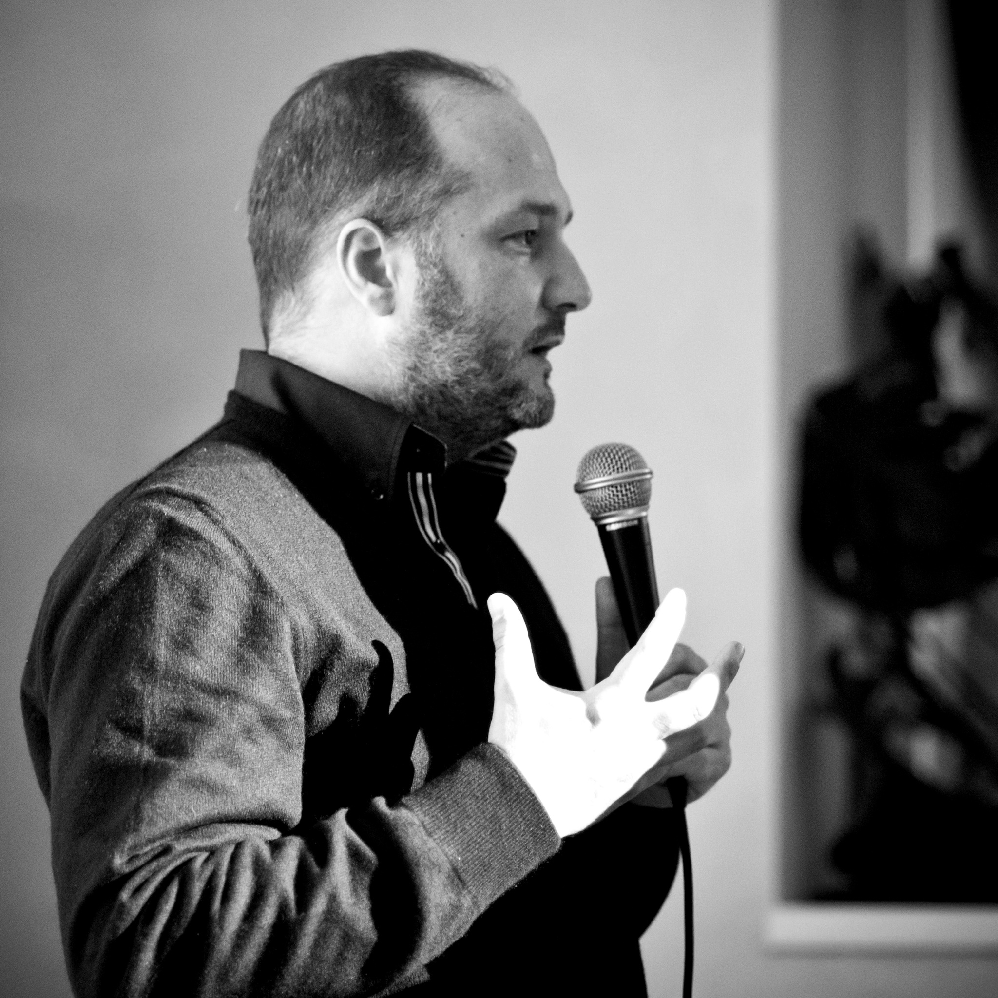 Architect Joseph Di Pasquale during a conference